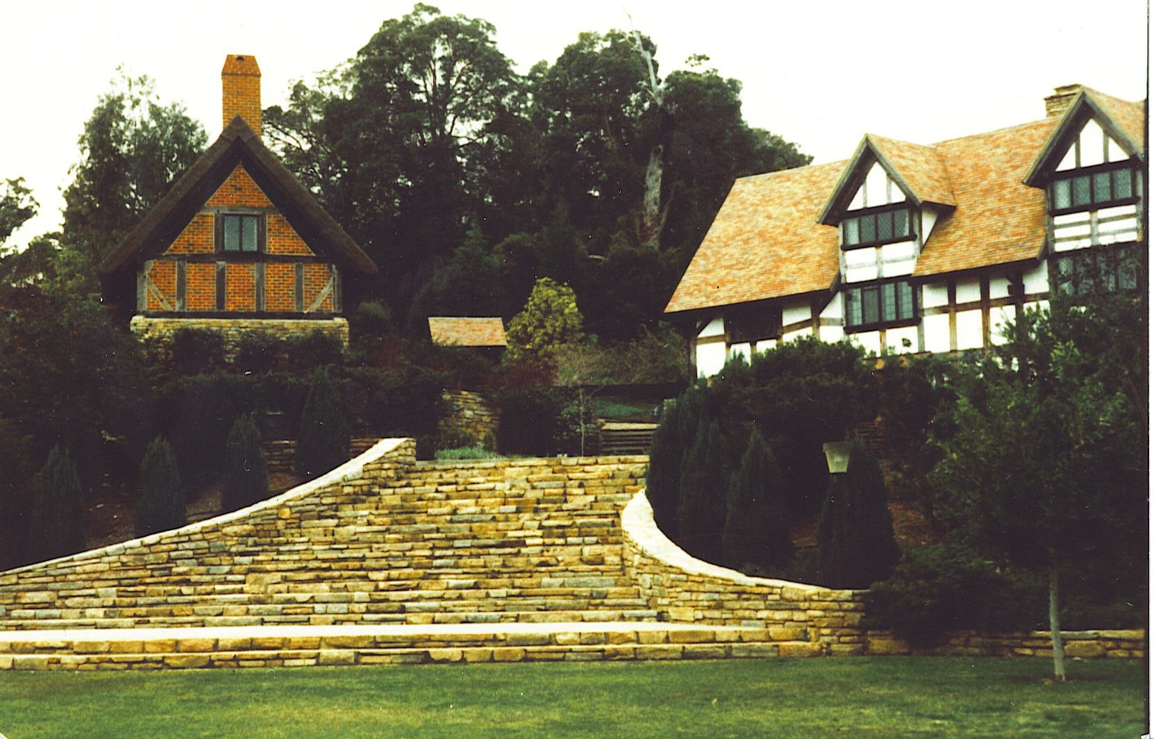 These buildings are replicas of the original buildingsthat are a part of the Elizabethan Village in Armadal, Western Australia built by Stanley Leopold Fowler